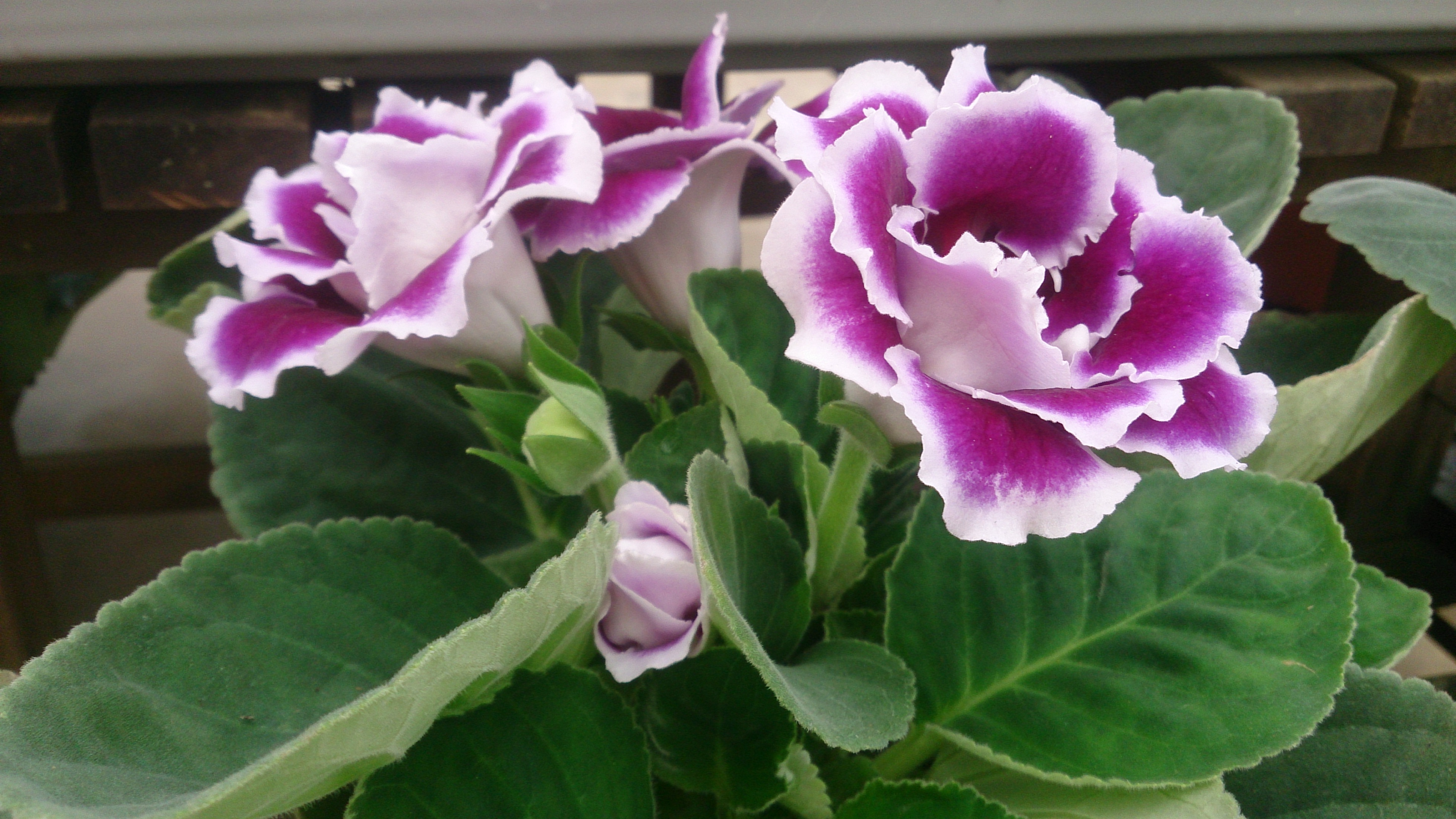 Gloxinia